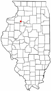 Category:Illinois city locator maps